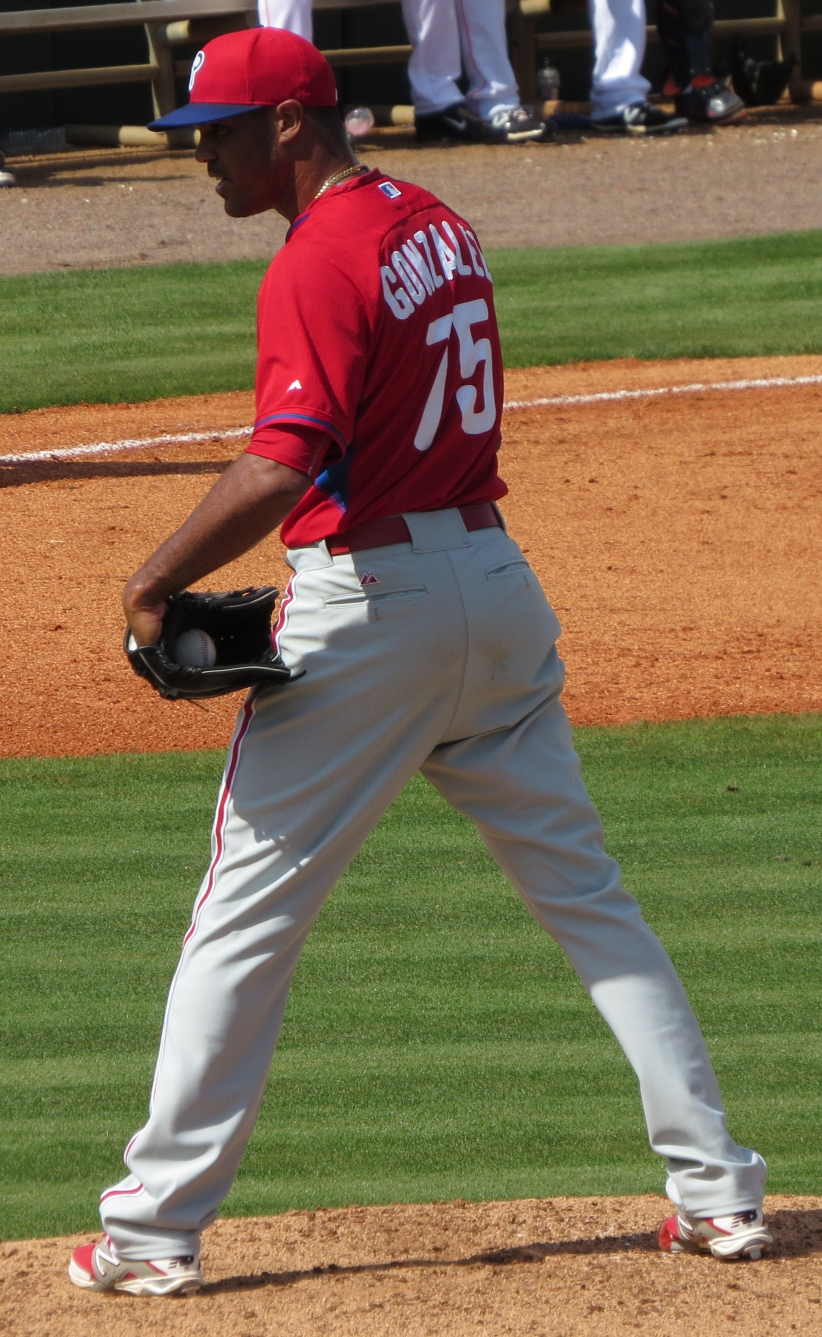 Miguel Alfredo González